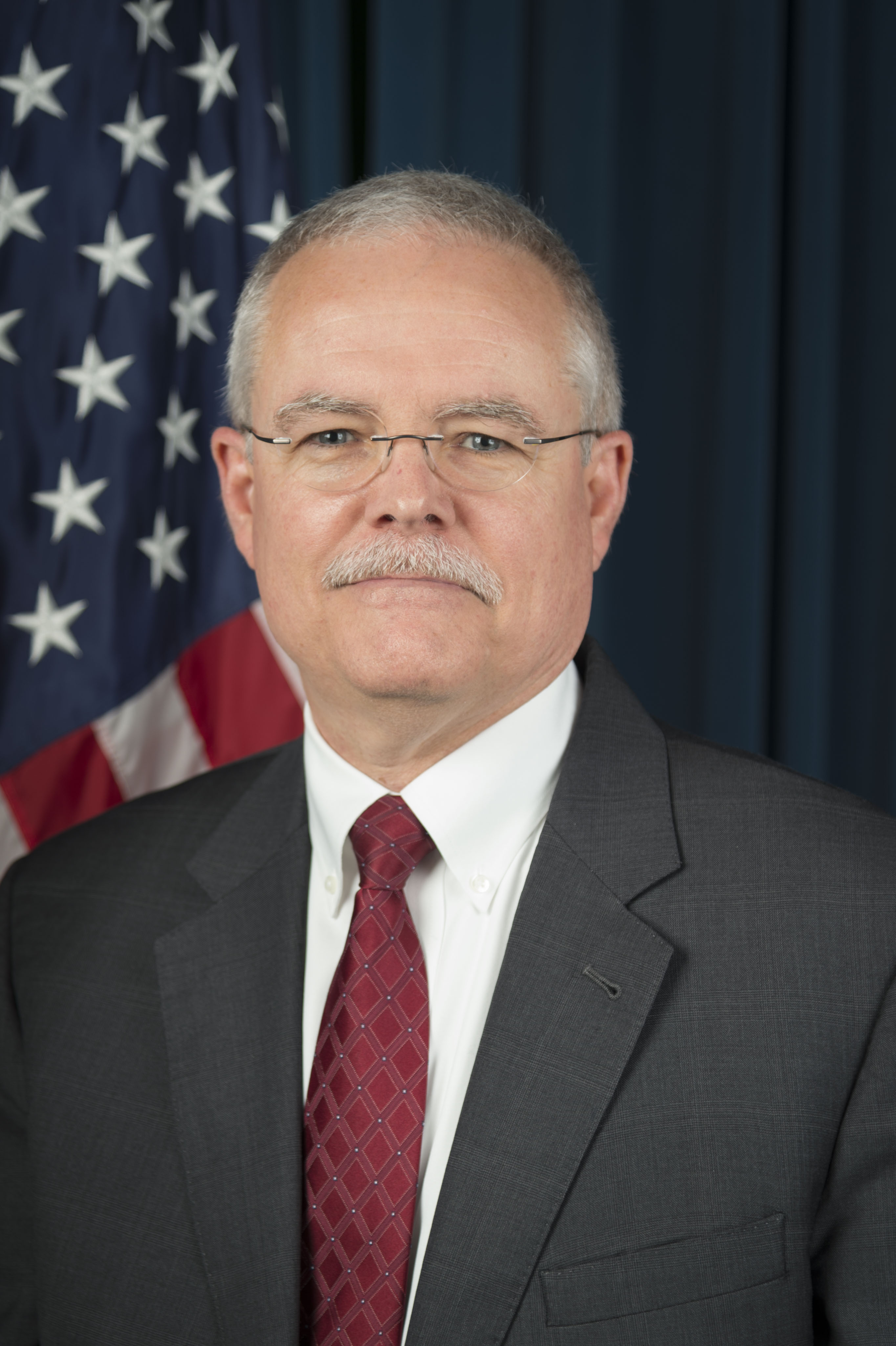 Andrew B. Haviland, Deputy Permanent Representative to the Organization For Economic Cooperation and Development (OECD)